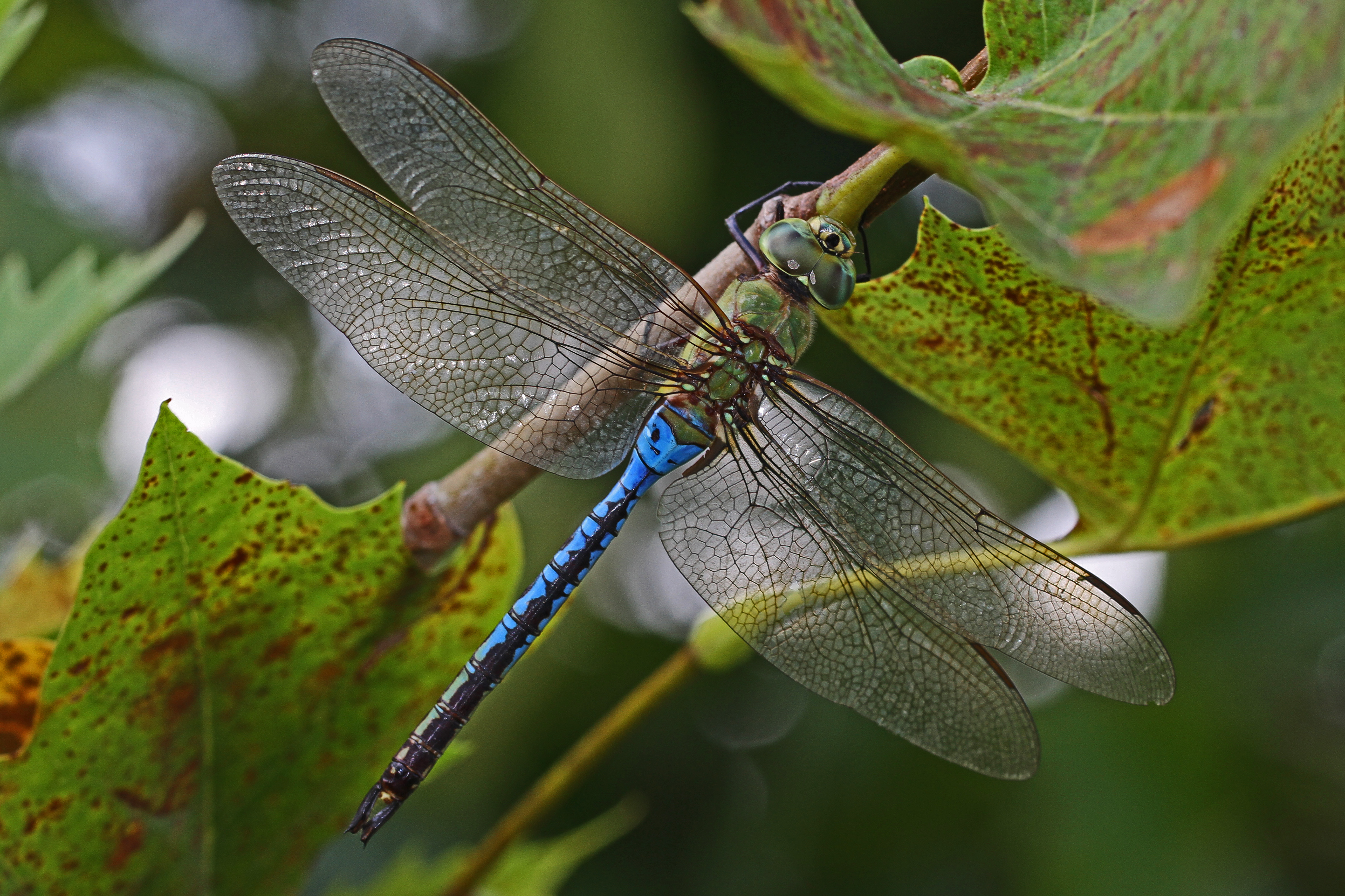 Common Green Darner (male) - Anax junius, Bles Park, Ashburn, Virginia